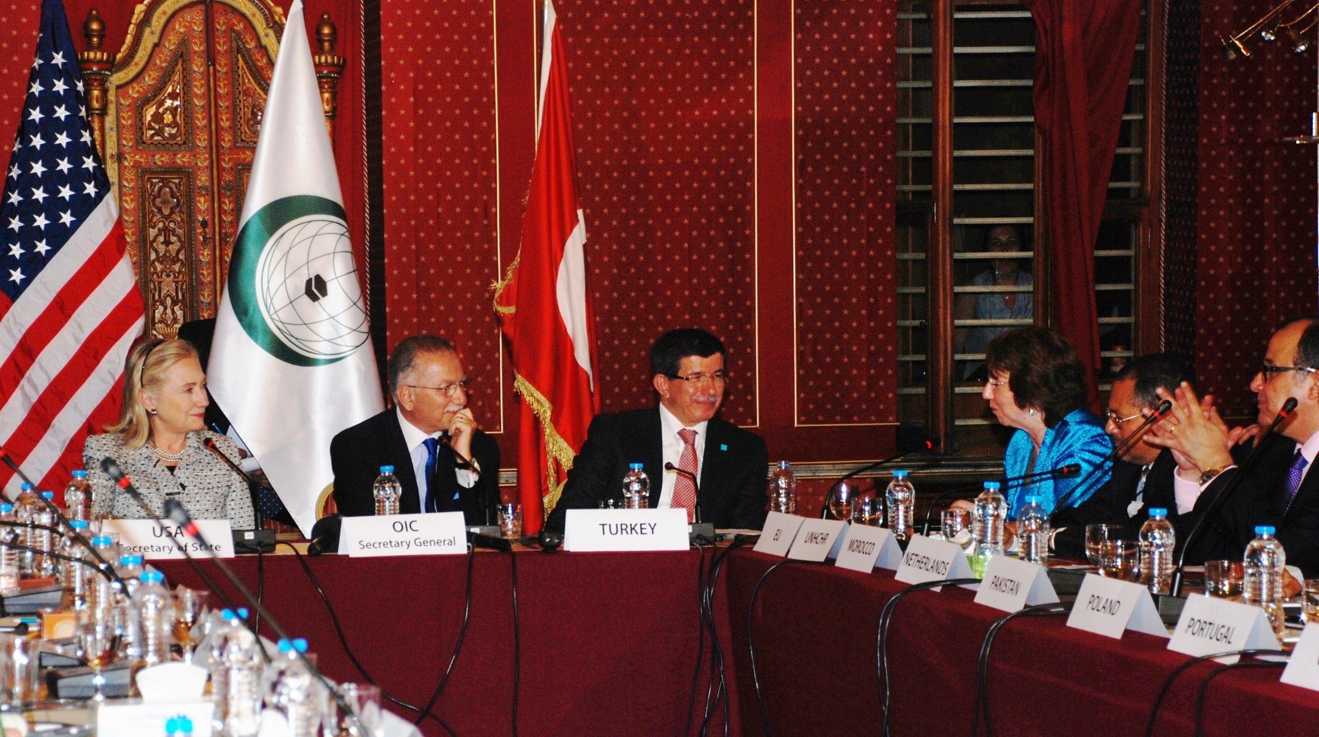 U.S. Secretary of State Hillary Rodham Clinton (L), Secretary-General of OIC Ekmeleddin İhsanoğlu (2nd L), Turkish Foreign Minister Ahmet Davutoglu (3rd L) and EU High Representative Catherine Ashton (4th L) participate in the Organization of Islamic Cooperation (OIC) Conference on “Building on the Consensus” at the Research Center for Islamic History, Art and Culture (IRCICA) in Istanbul, Turkey, on July 15, 2011. [State Department photo/ Public Domain]